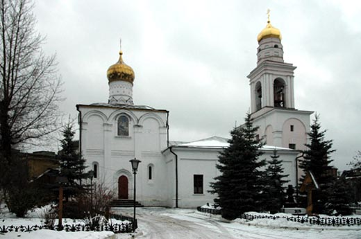 Church of Nativity of Theotokos in Old Simonovo